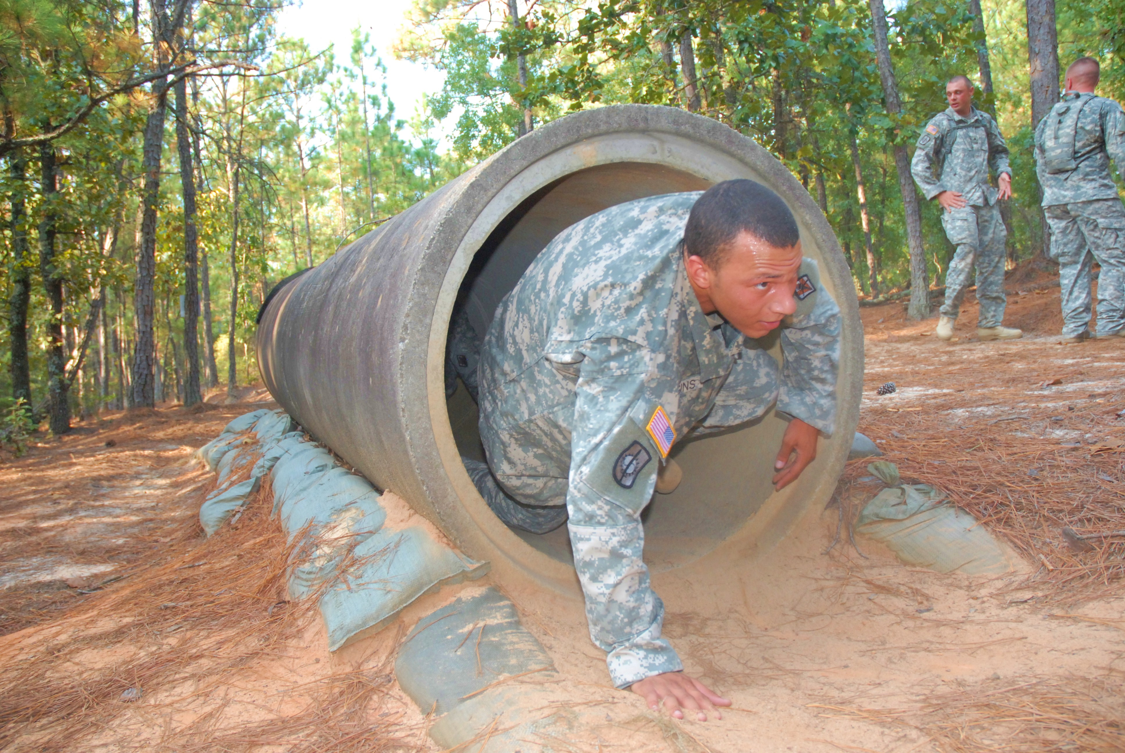 Sgt. Clifton Riggins, with the 17th Military Police Detachment, crawls through an obstacle as part of a Special Reaction Team tryout Sept. 14. Riggins, along with the eight other Soldiers participating in the tryout, engaged in a variety of demanding tasks during the daylong tryout, including a PTâ€ˆtest, rappelling, clearing a room, marksmanship and answering questions before a board. SRTâ€ˆmembers are required to respond to crisis situations at a moment's notice any time, day or night.